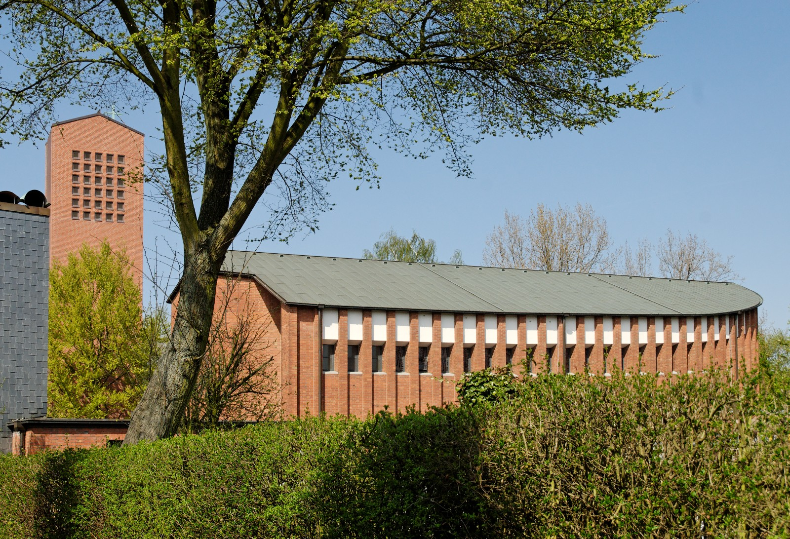 Saint Catherine in Düsseldorf-Gerresheim, Germany